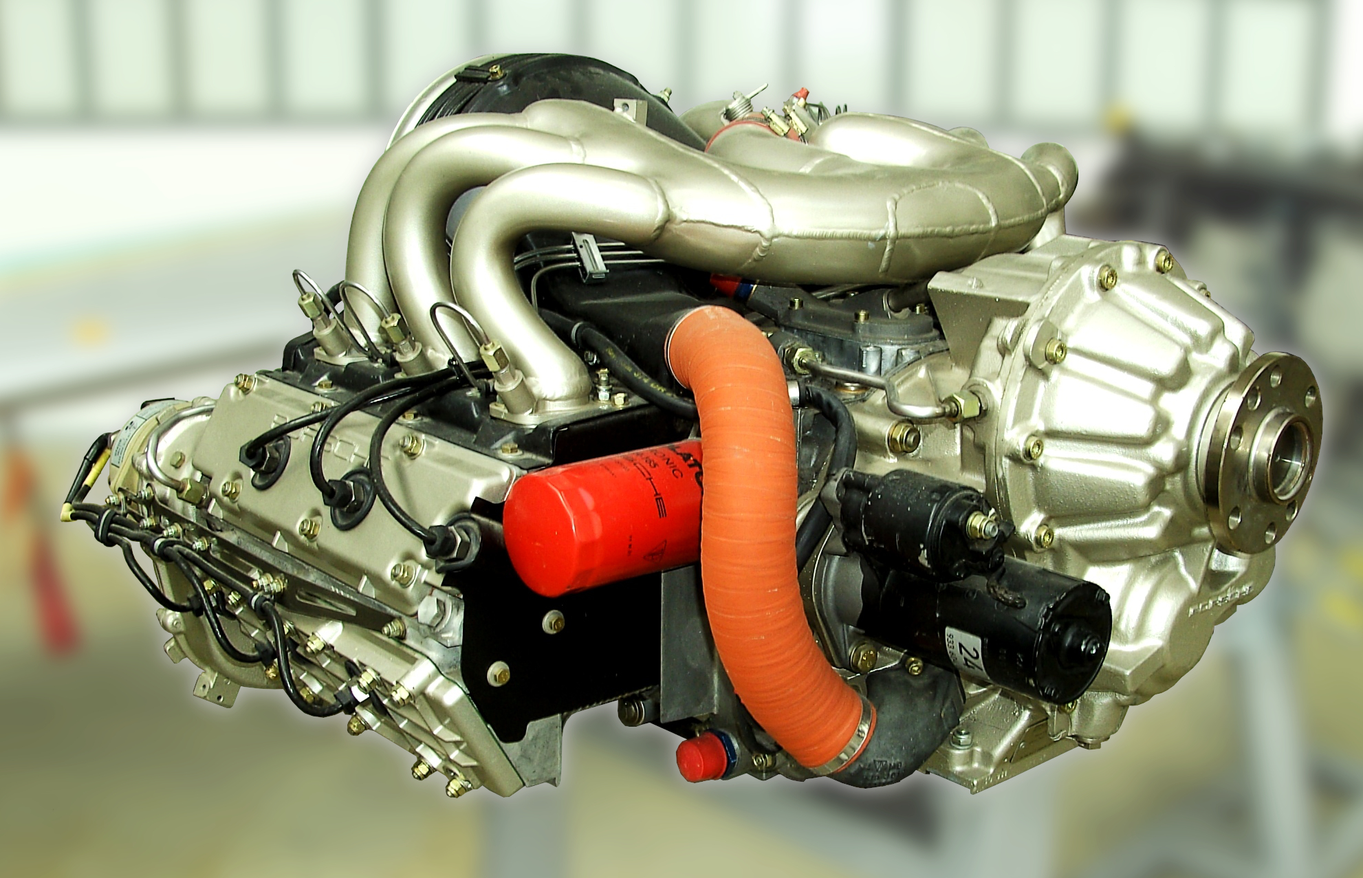 Porsche aircraft engine PFM 3200, displayed in the Flugwerft Schleißheim.